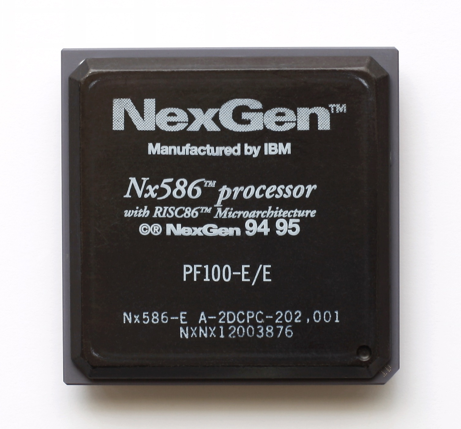 NexGen Nx586PF-100 retouched